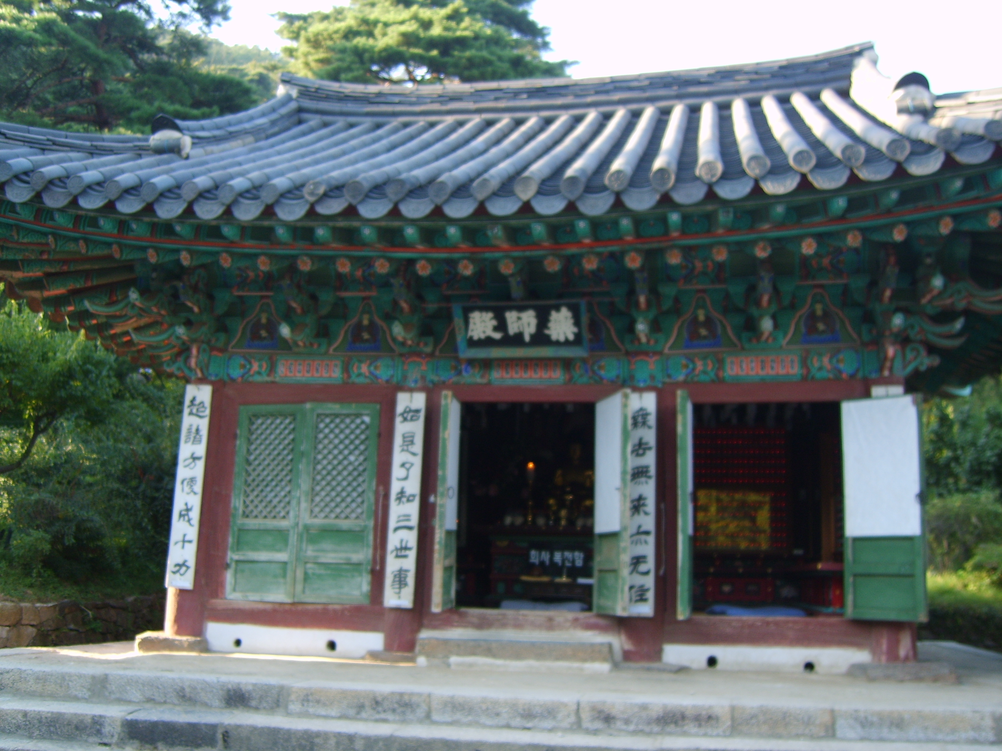 Yaksajeon at Jeondeungsa in Ganghwa, Korea